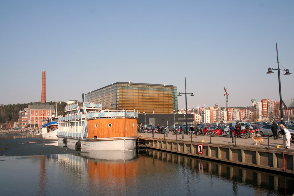 Sibelius hall in Lahti, Finland – a music and congress hall named after Jean Sibelius, the composer, designed by architects Hannu Tikka and Kimmo Lintula and built in 2000. Geographical position: 60°59.710′N 025°39.117′E / 60.99517°N 25.65195°E. References: Sibelius hall